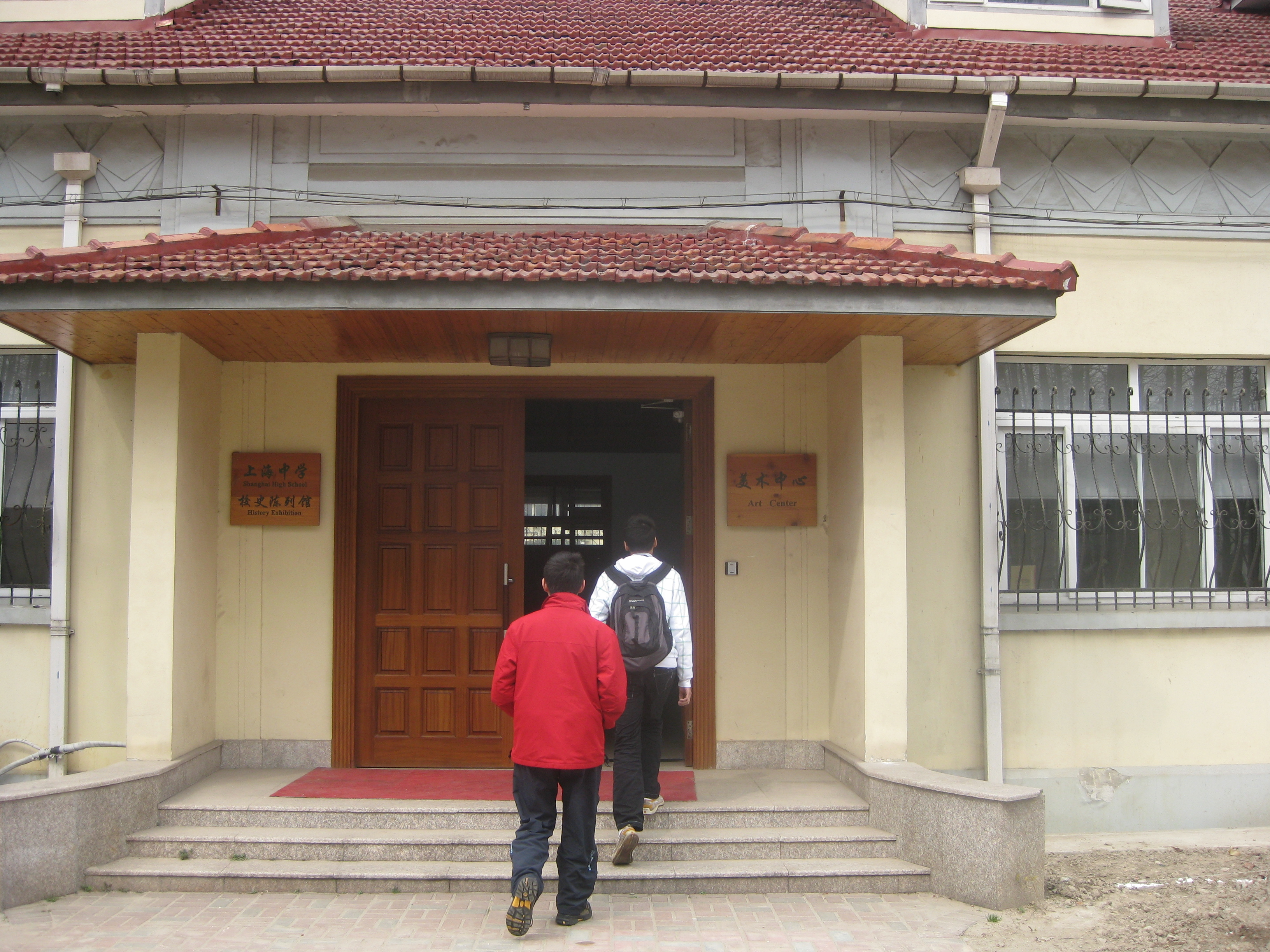 A picture of the SHSID Art center.